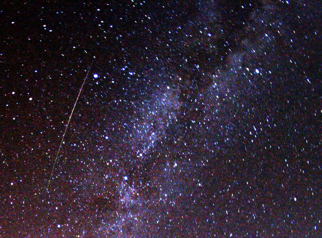 A multicolored, long Perseid meteor striking the sky just to the left of Milky Way.